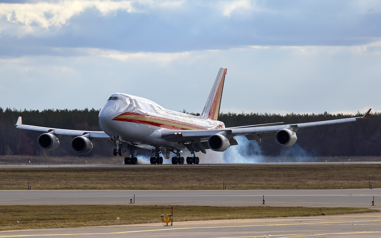 A Kalitta Air 747-F lands at Kyiv's Boryspil Intl Airport